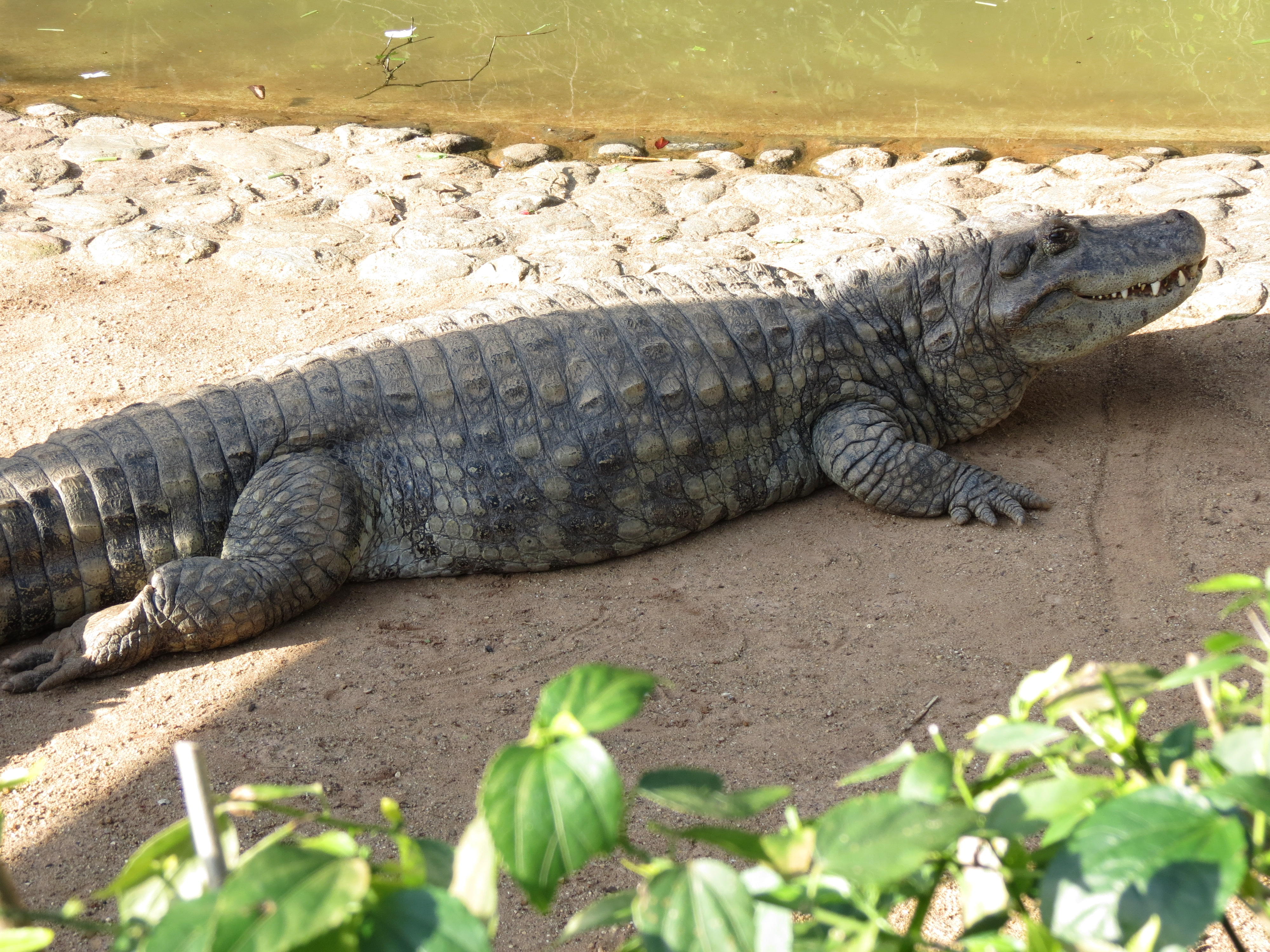 Caiman latirostris in São Paulo Zoo.